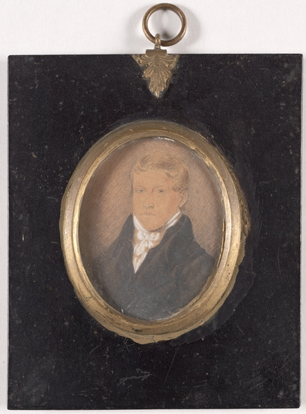 The Anglican clergyman Thomas Hassall was the first Australian candidate for ordination that was confirmed in April 1821. Presented by Thomas Hassall Esq. of Brisbane, 1918.